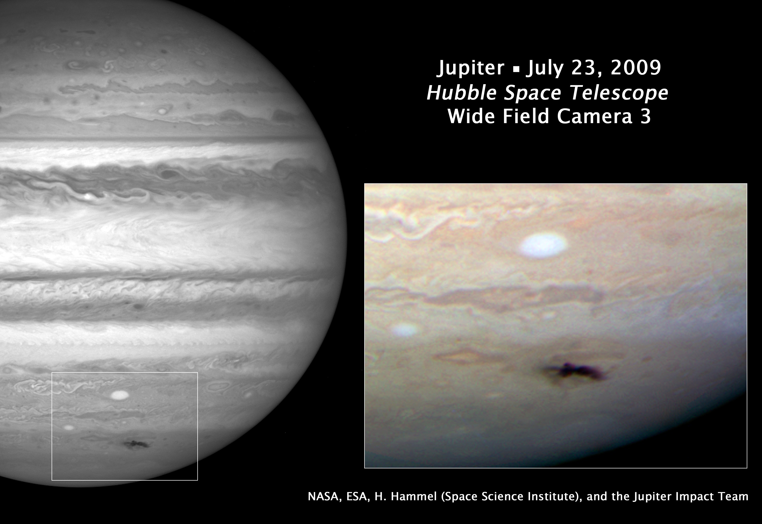 NASA scientists have interrupted the checkout and calibration of the Hubble Space Telescope to aim the recently refurbished observatory at a new expanding spot on the giant planet Jupiter. The spot, caused by the impact of a comet or an asteroid, is changing day to day in the planet's cloud tops. The Hubble picture, taken on July 23, is the sharpest visible-light picture taken of the impact feature. The observations were made with Hubble's new camera, the Wide Field Camera 3 (WFC3). WFC3 is not yet fully calibrated, and while it is possible to obtain celestial images, the camera's full power cannot yet be realized for most observations. The WFC3 can still return meaningful science images that will complement the Jupiter pictures being taken with ground-based telescopes.